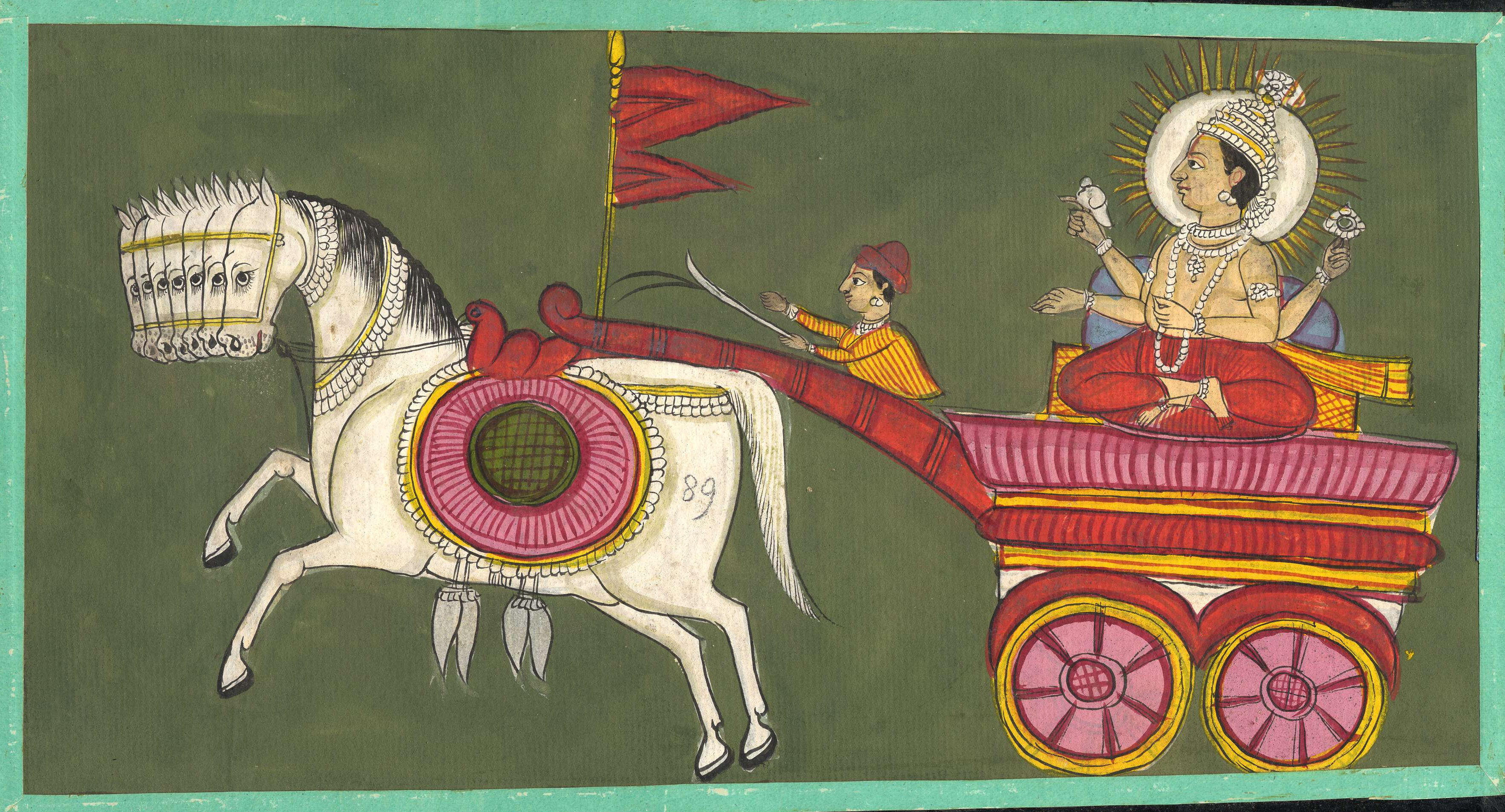 "Surya, the sun-god, seated on his chariot led by a horse with seven heads."